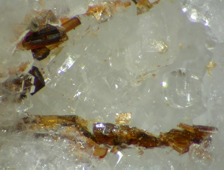 Vigezzite Locality: Alpe Rosso, Orcesco, Druogno, Vigezzo Valley, Ossola Valley, Verbano-Cusio-Ossola Province, Piedmont, Italy Orange/brown crystals of Vigezzite. Field of view 2 mm. Specimen and photo Leon Hupperichs.